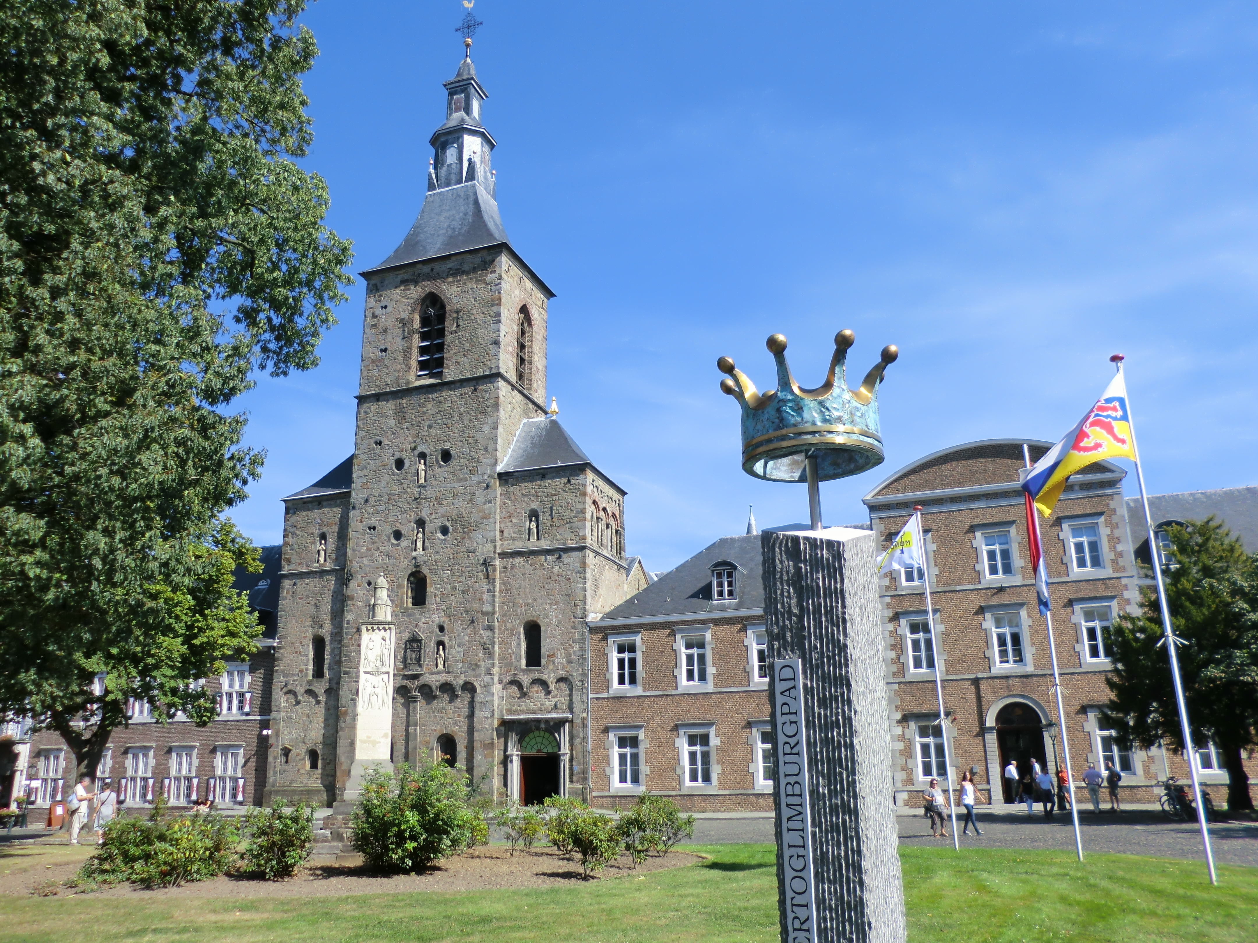 The Rolduc abbey in Kerkrade, The Netherlands.